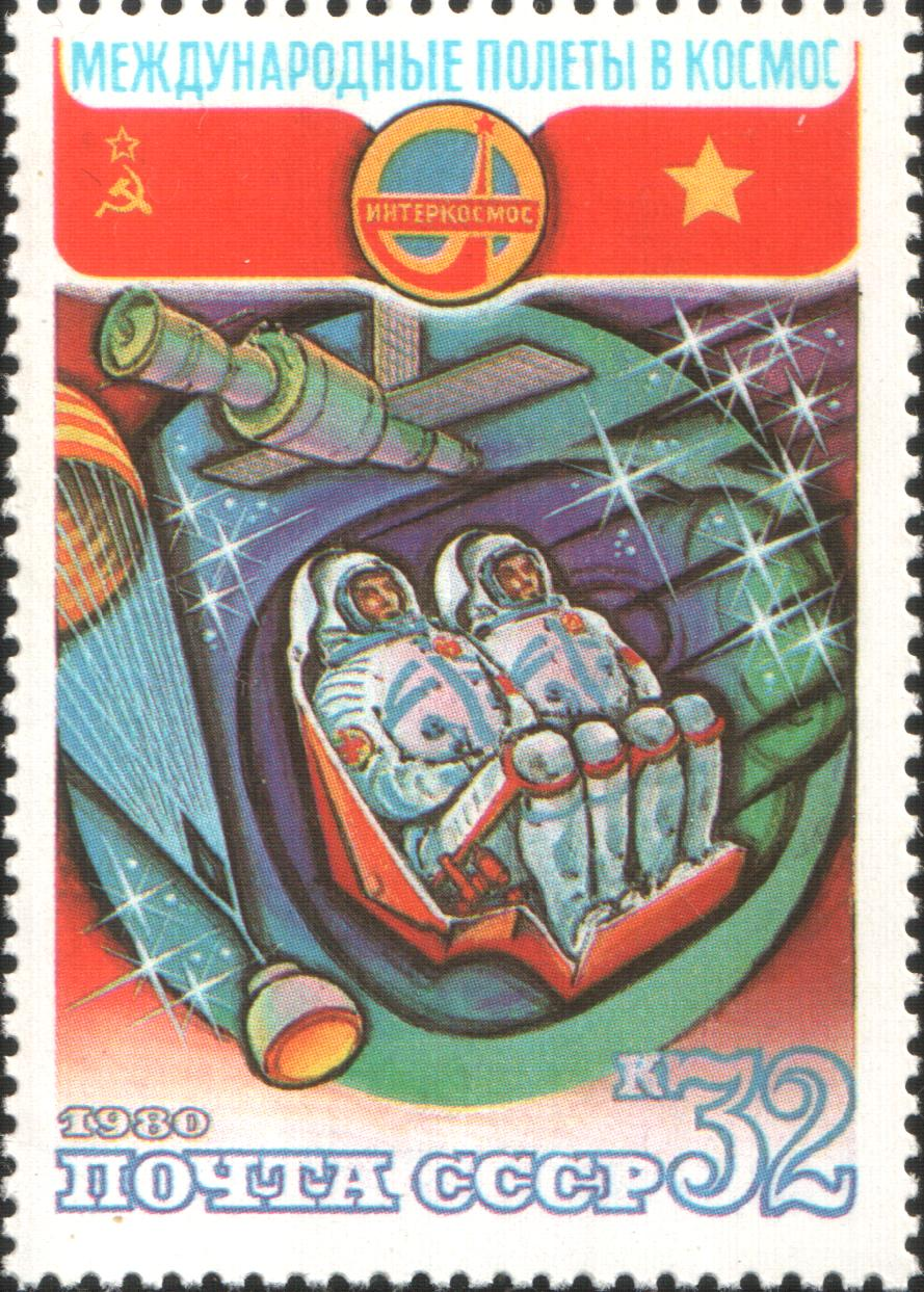 USSR stamp